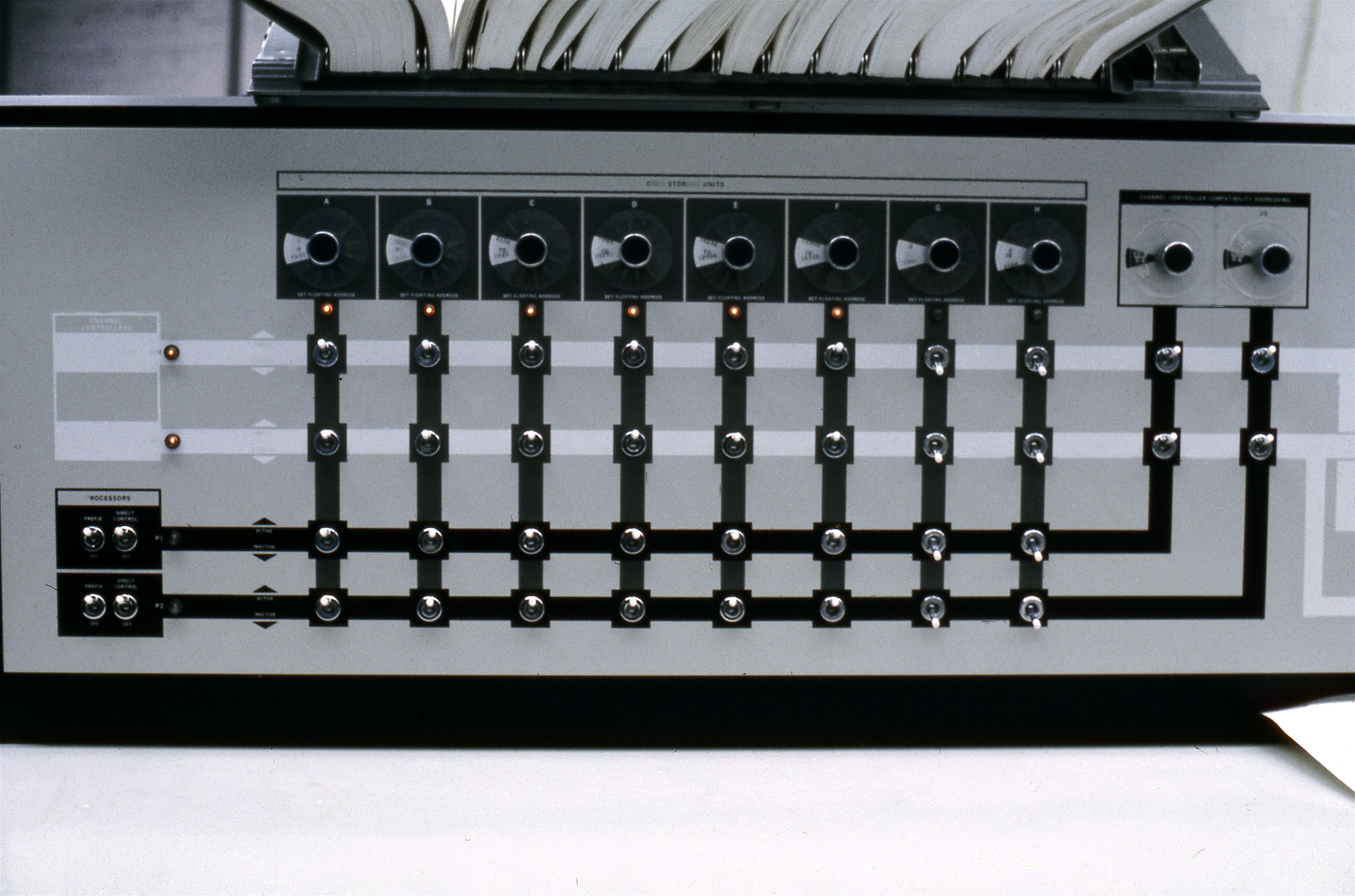 Closeup of the left side of the configuration console of the IBM S/360-67 Duplex mainframe computer at the University of Michigan's Computing Center, c. 1968